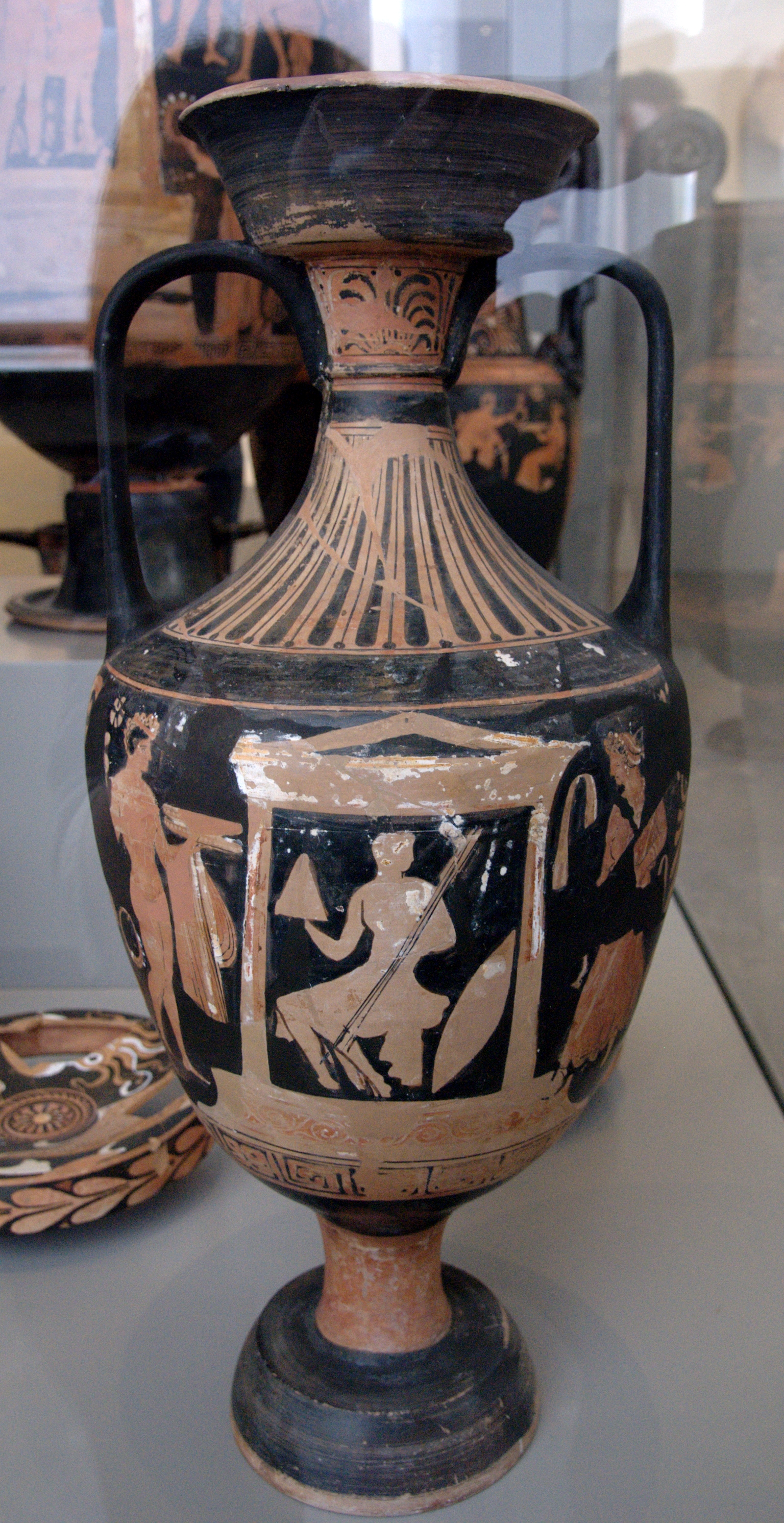 Naiskos. Apulian red-figure amphora, ca. 340 BC.